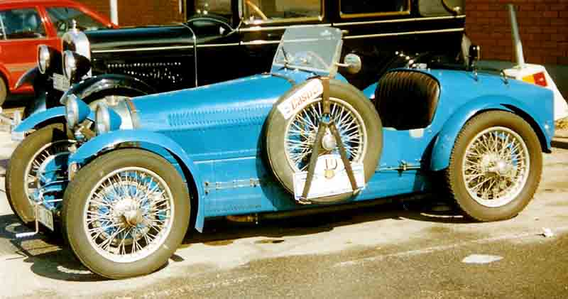 Bugatti Type 37 Sports 1926